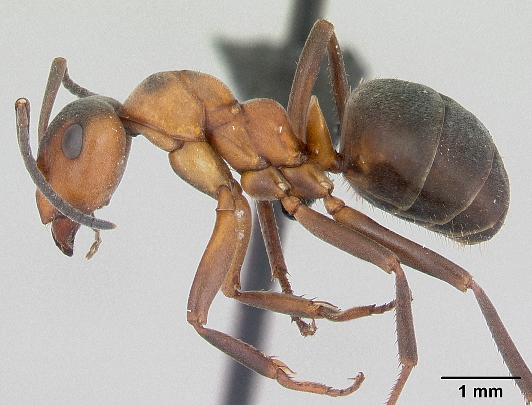 Profile view of ant Formica aquilonia specimen casent0173151.